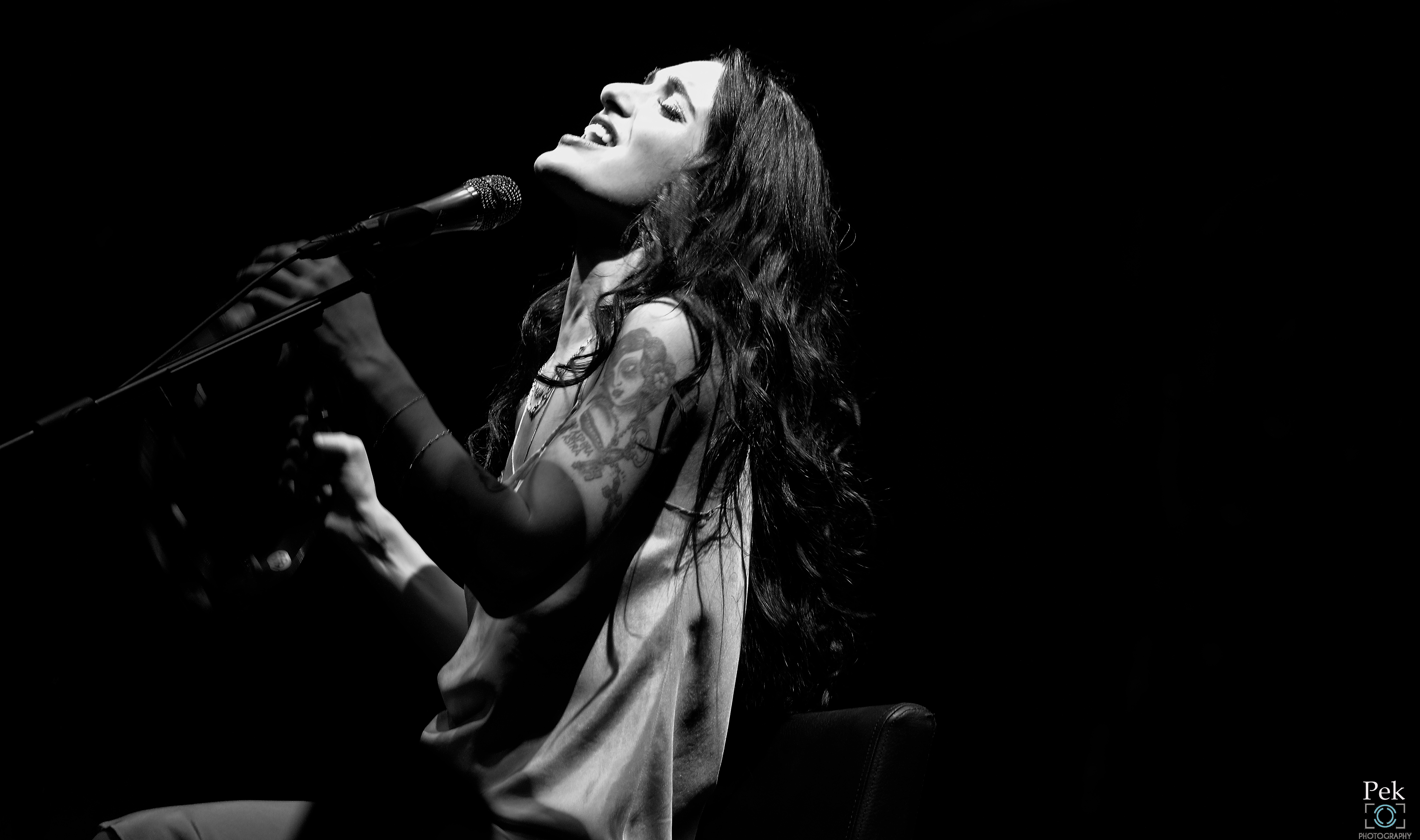 Levante performing live at the Auditorium Parco della Musica in Rome on 8 March 2018